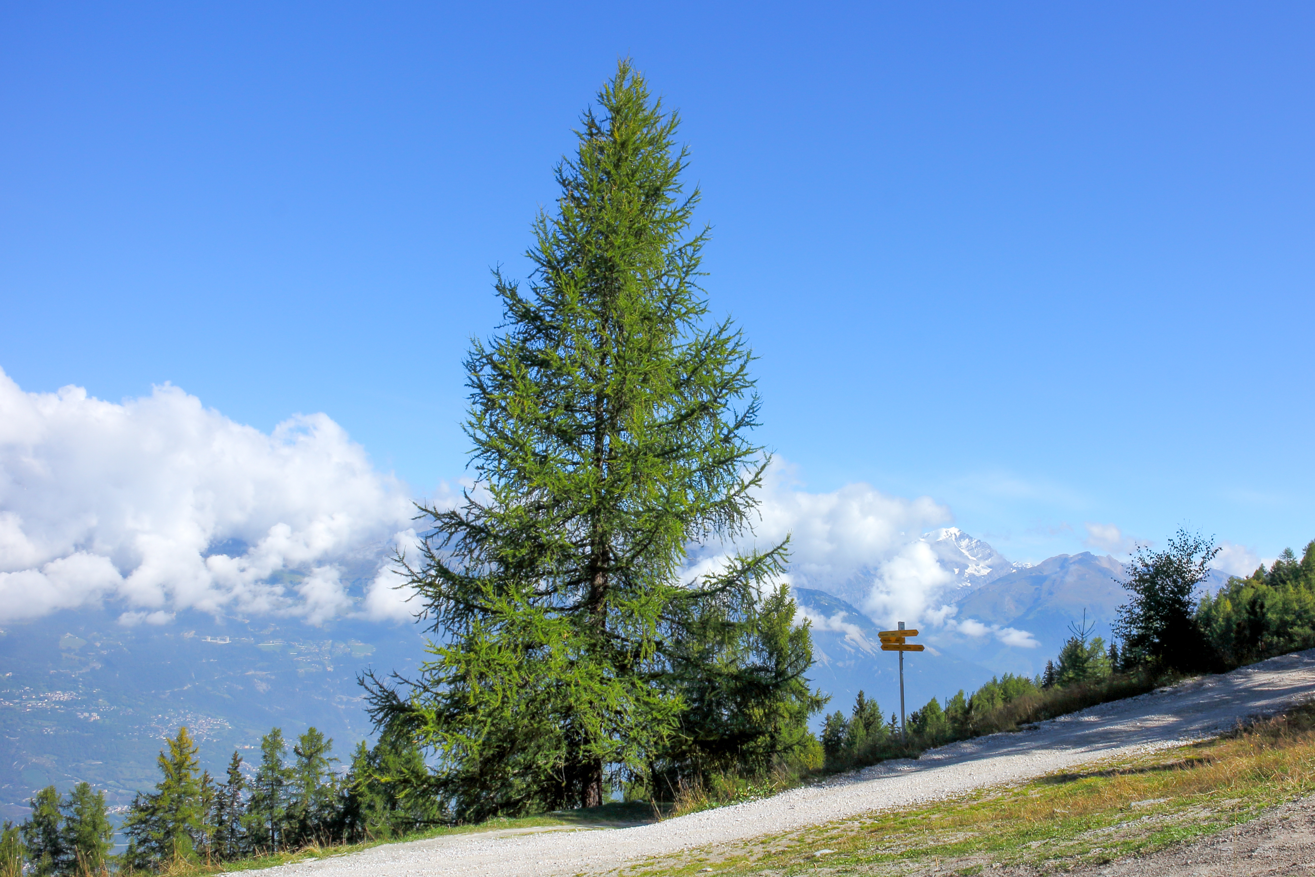 l'A Bran, (1798 m) Val d'Anniviers. European larch (Larix decidua).